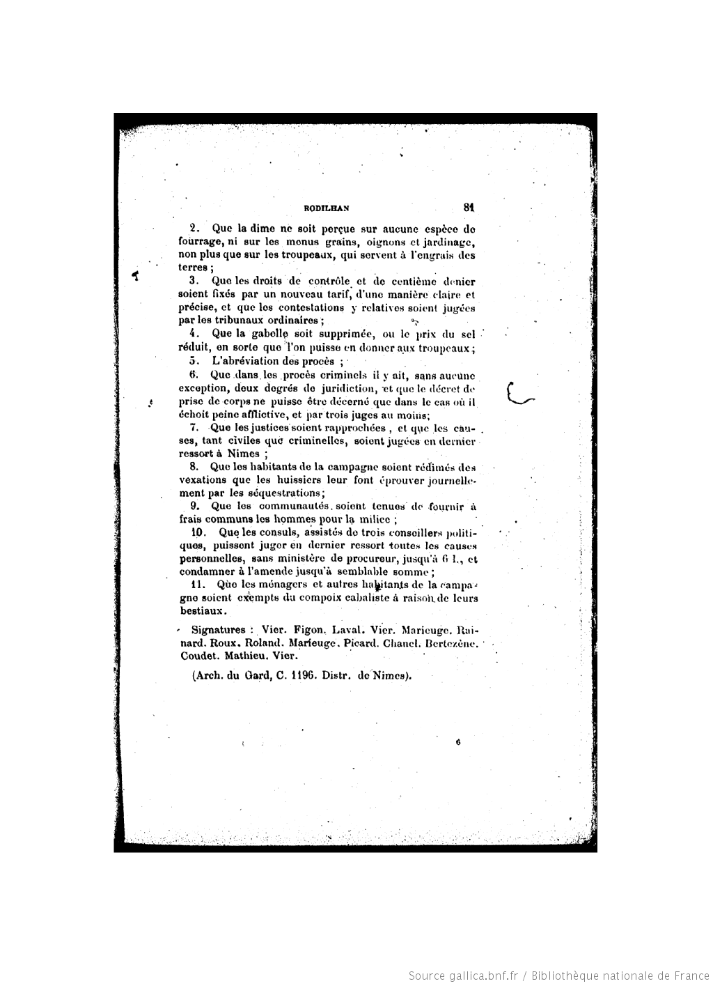 The second page of the cahiers de doléance coming from Rodilhan, département Gard